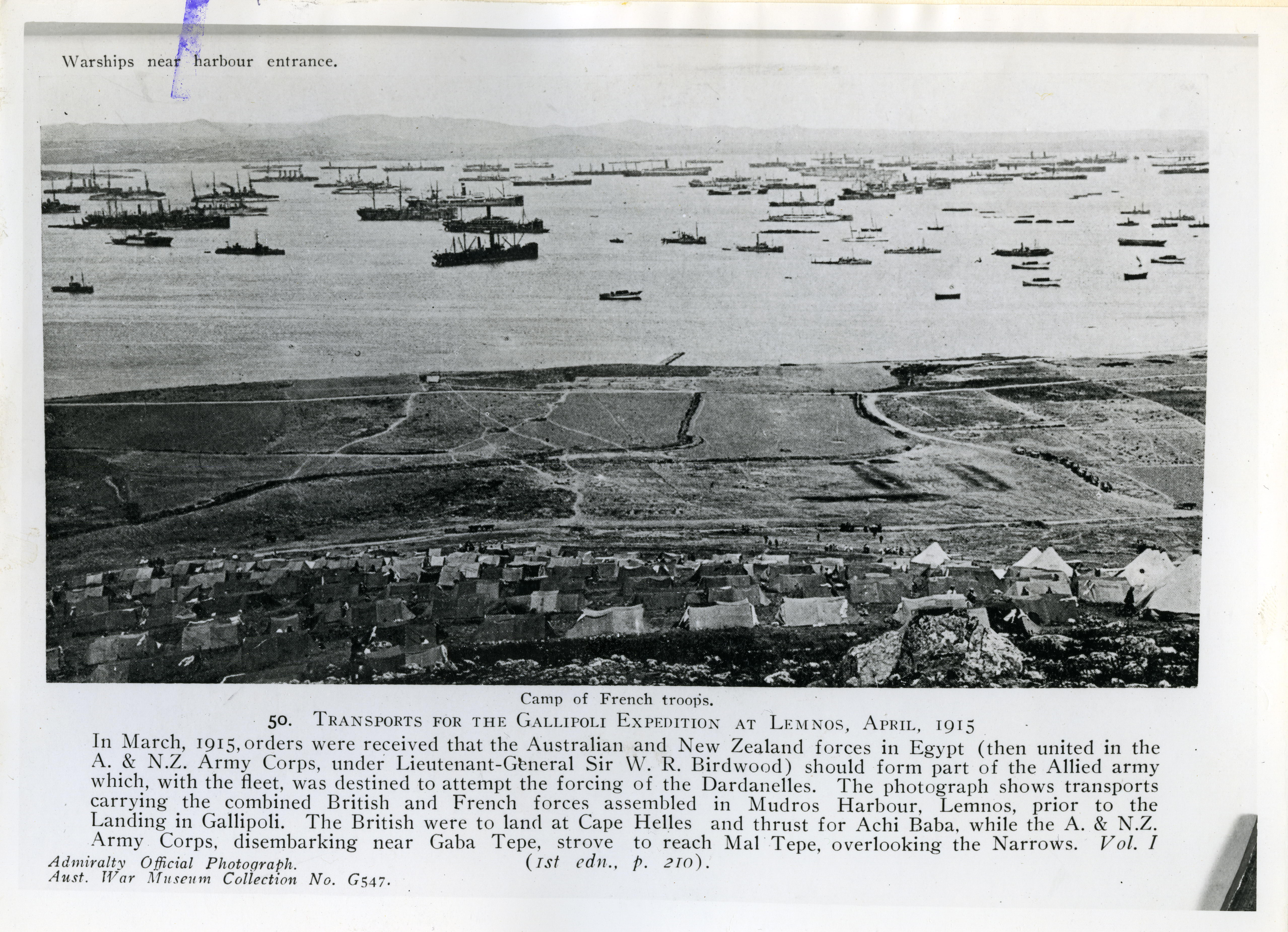 This image shows the transports for the Gallipoli expedition at Lemnos, April 1915. In teh foreground is a French camp of troops. It comes from a published volume, which was rephotographed and then archived in a series of historic Post Office prints. Archives Reference: AAME W5603 Box 115/ 11/8/171 Material from Archives New Zealand